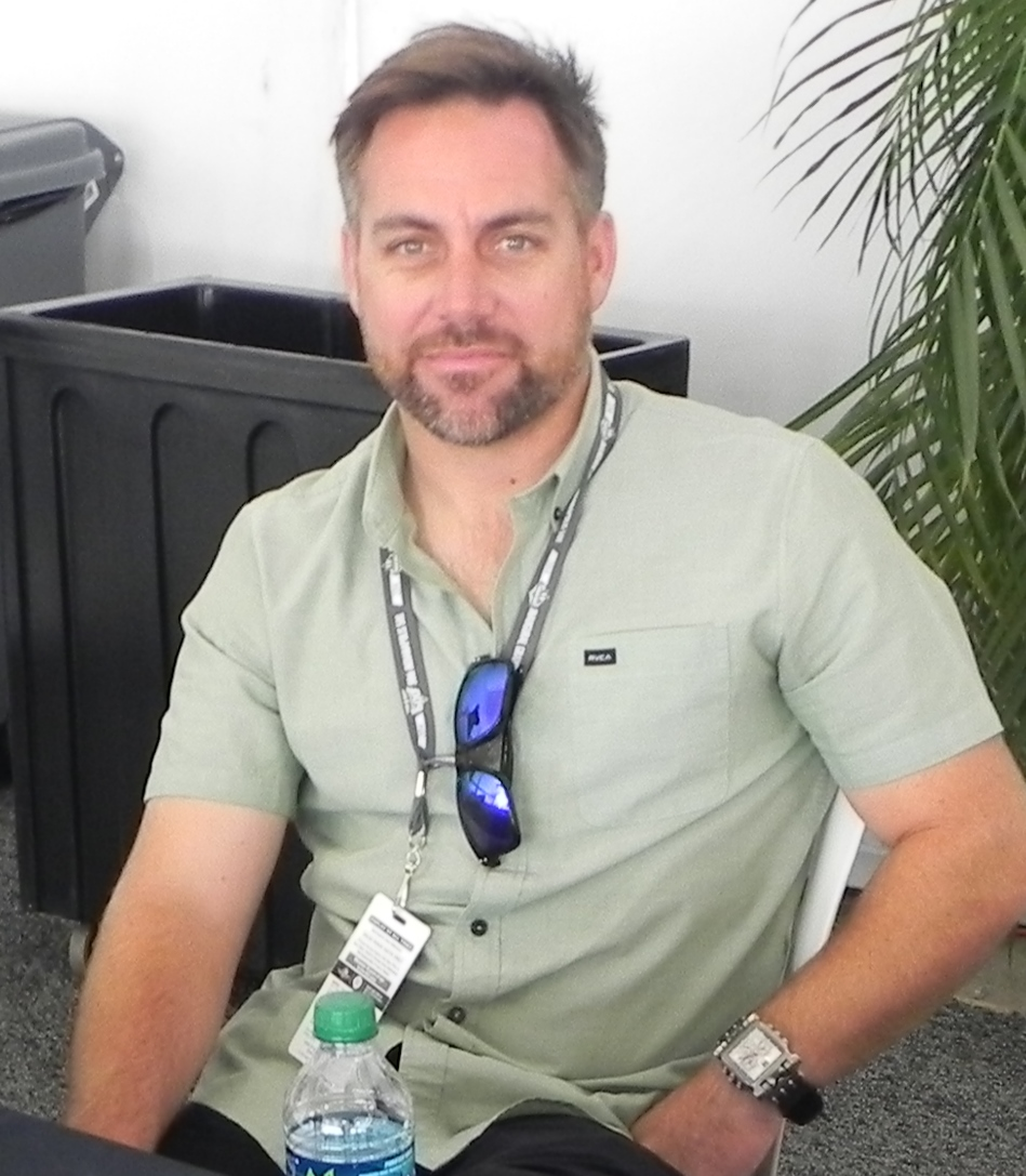 Indy500 driver Phil Geibler at the 2014 Indianapolis 500.